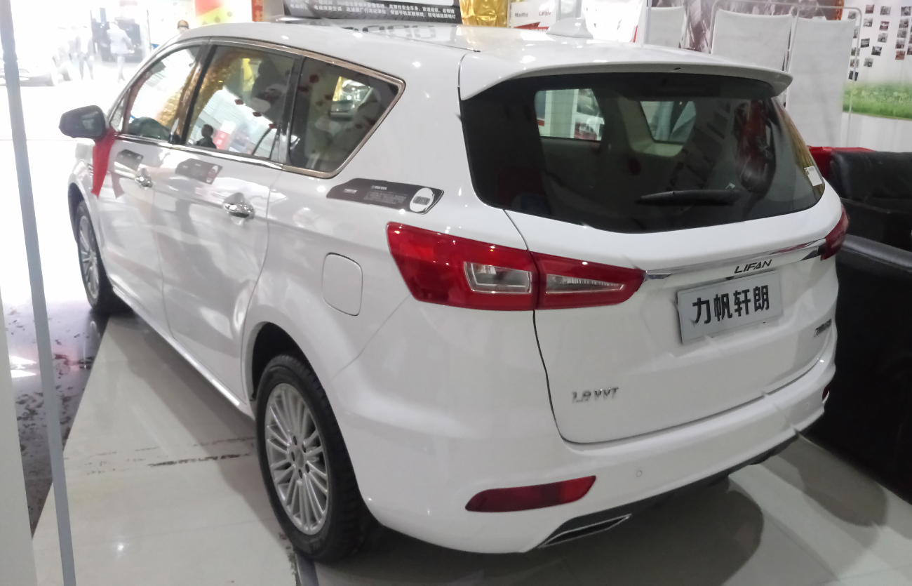 Lifan Xuanlang photographed in Wuhan, Hubei province, China.